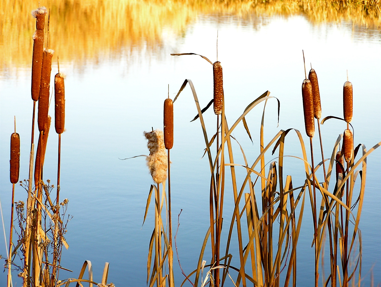 tupha